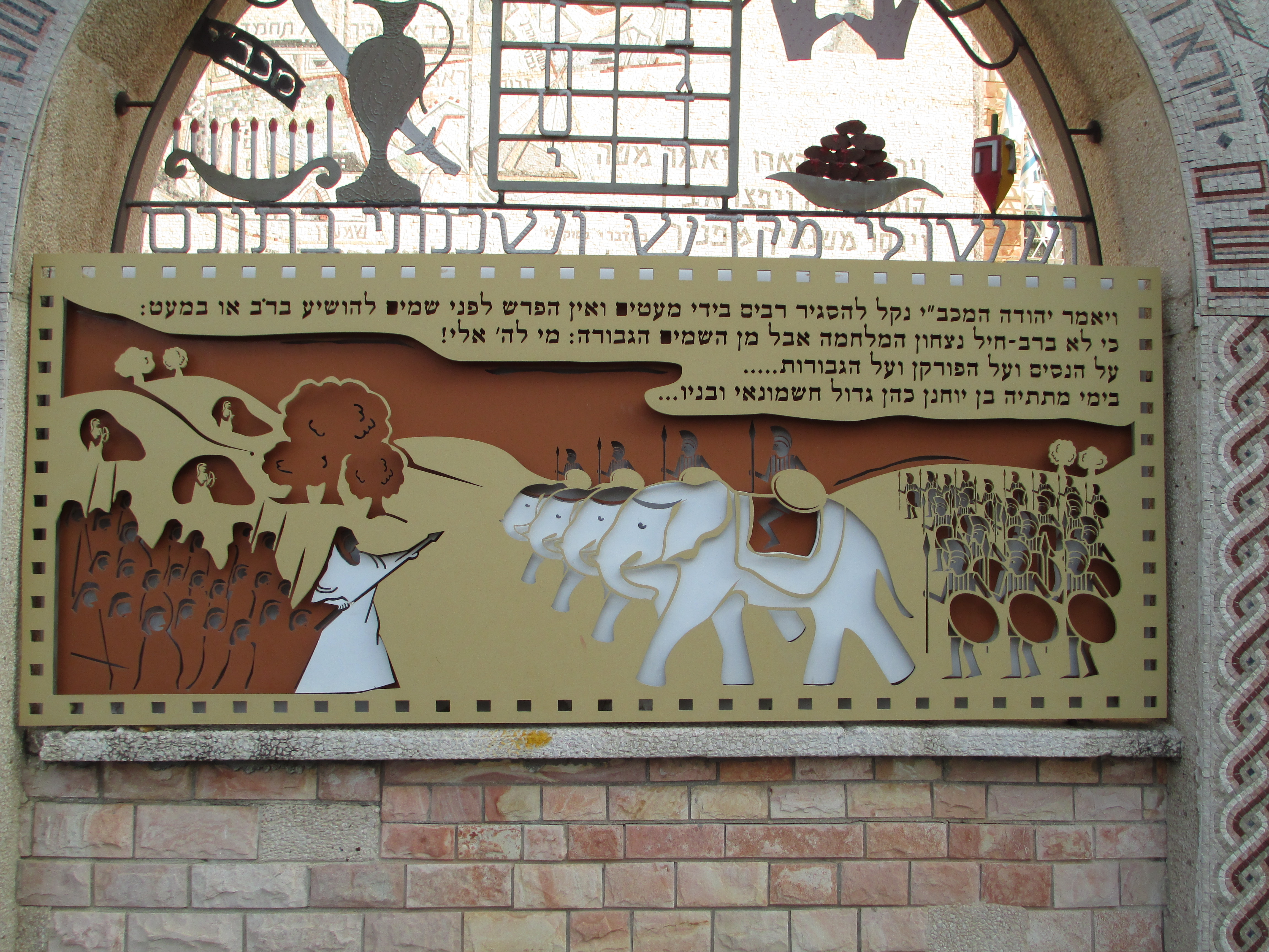 Or Torah Synagogue in Acre-Judas Maccabeus